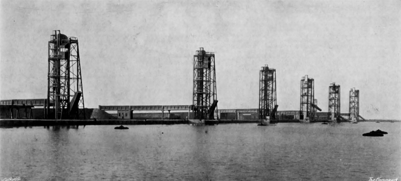 Coal hoists at Immingham dock, c.1912 From: The Immingham Dock. No.V (28 June 1912).